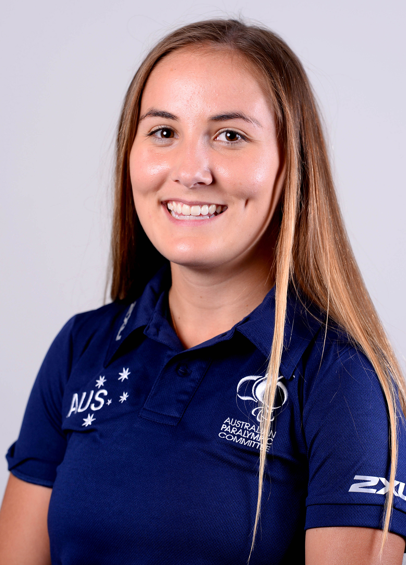 Portrait photograph of Rae Anderson taken at team processing session for shadow members of 2016 Australian Paralympic team